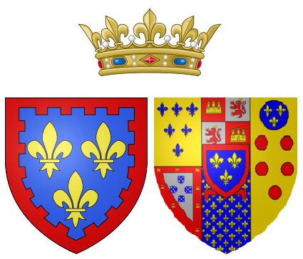 Coat of arms of Princess Caroline of Naples and Sicily as Duchess of Berry